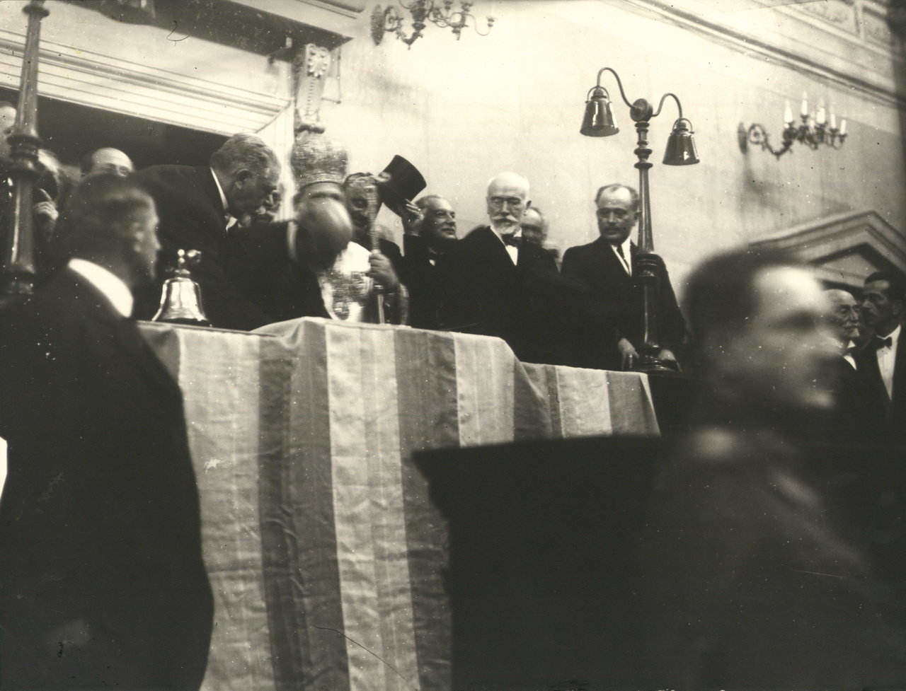 Circa 25 March 1924 : Pavlos Kountoriotis is sworn in as the first President of the Second Hellenic Republic, in front of Prime Minister Eleftherios Venizelos. Also pictured are George Maris, Themistoclis Sophoulis, Ioannis Tsirimokos and Michael Argyropoulos.